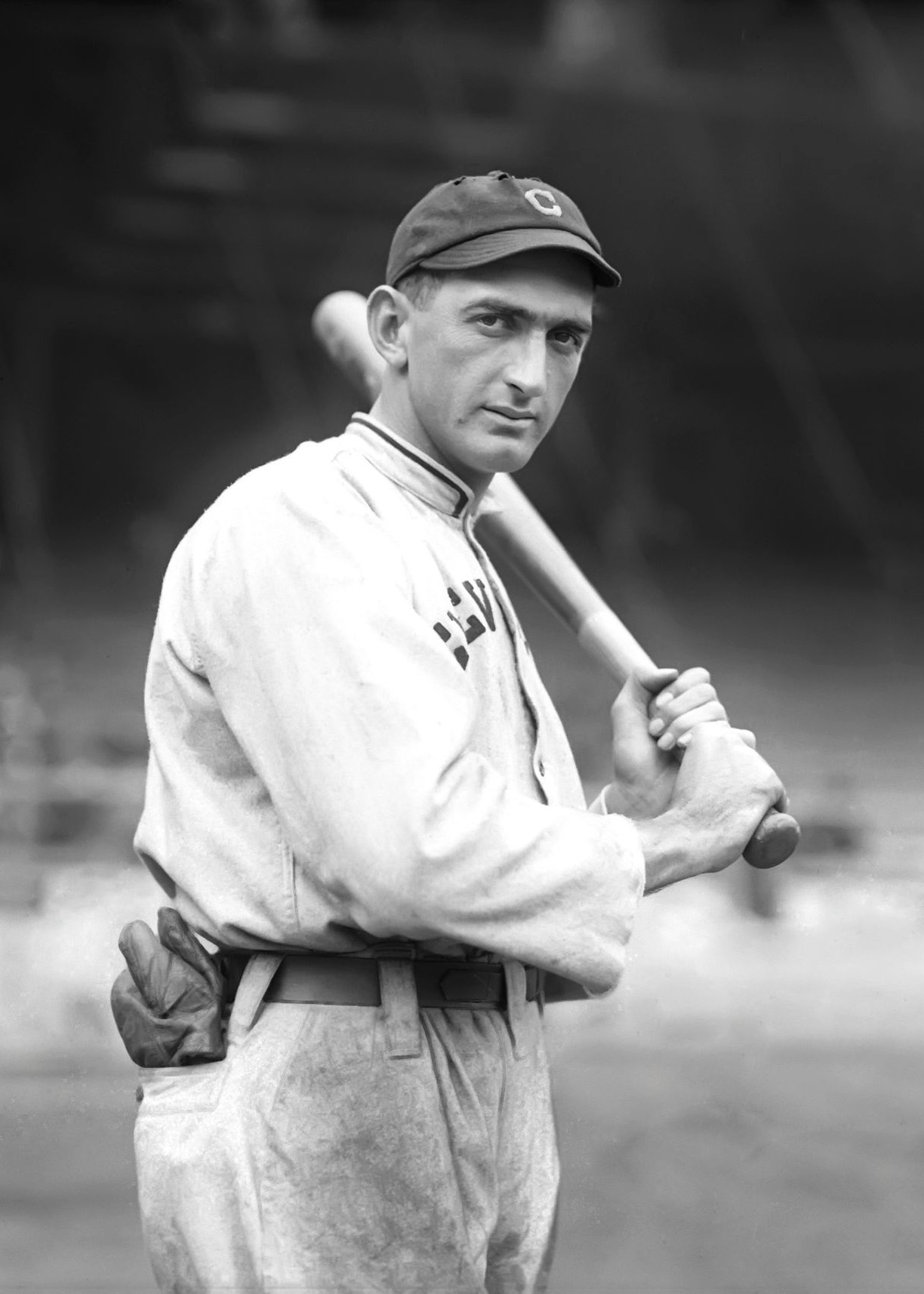 Shoeless Joe Jackson, Black Betsy in hand, during his 1913 season with the Cleveland Naps.